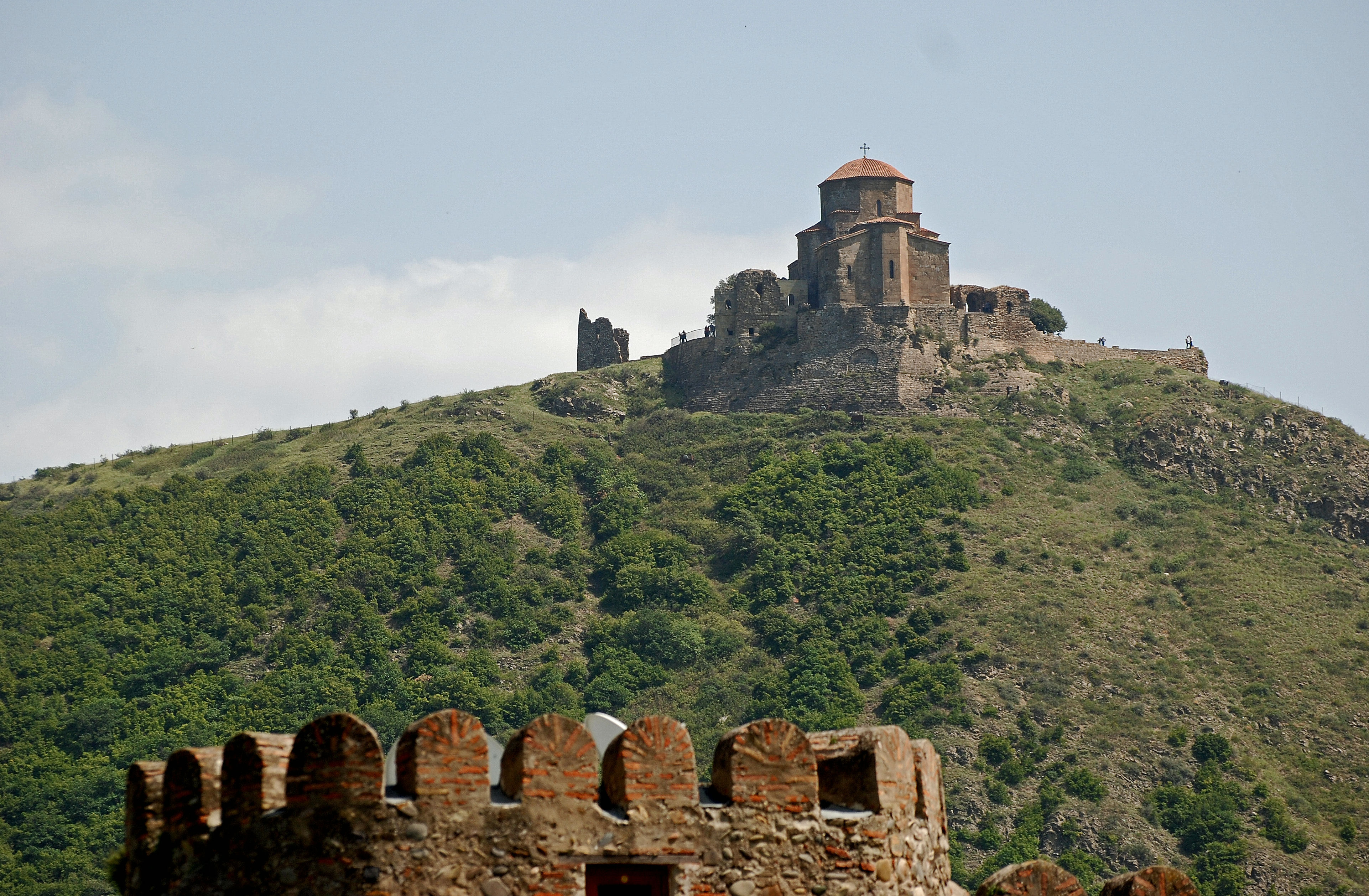 Jvari monastery, Mtskheta, Georgia